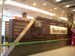 bookmart